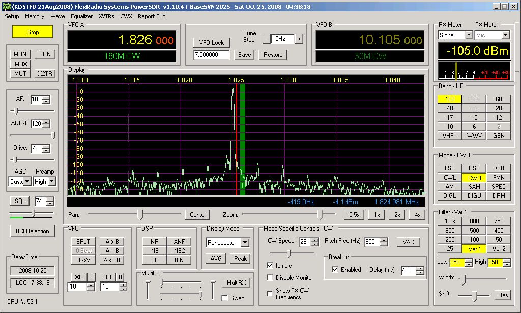 HPSDR "Mercury" is a 0-65 MHz Direct Sampling Receiver.